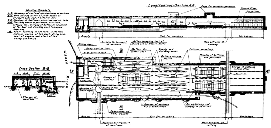 Submarine Assembly Line - Farge. page 99, Project No. 1-47-7, Comparative Tests of the Effectiveness of Large Bombs Against Reinforced Concrete Structures (Anglo-American Bomb Tests – Project Ruby)